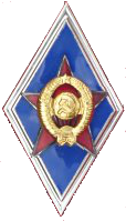 Graduates badge of the SSSR armed force, issued to graduates of a military education facility, an officer high schools or a military faculty of a civilian high school.